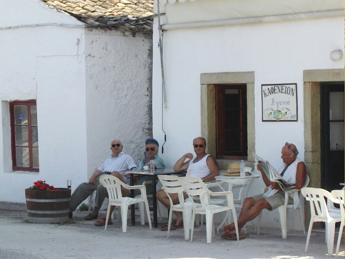 Gaios, Paxos island: Kafenio (Greece) Author: Rémi Stosskopf